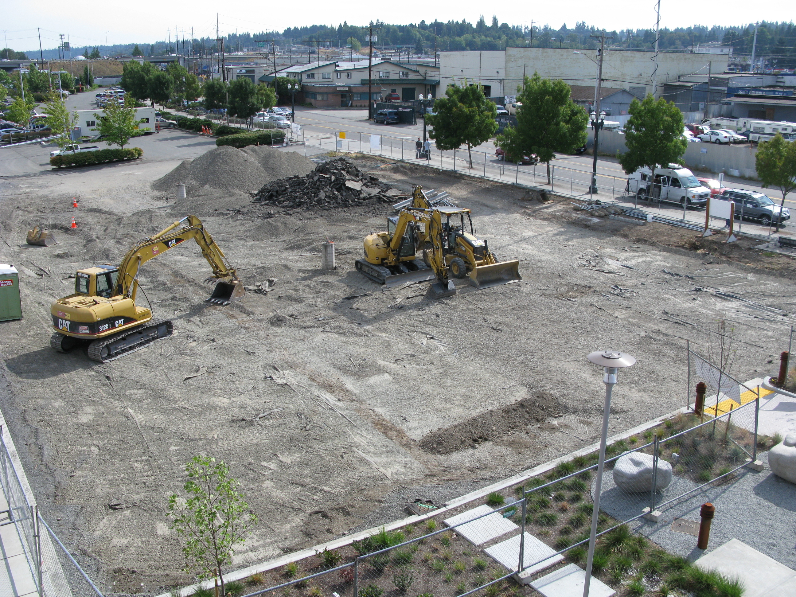 The Swift bus rapid transit station at Everett Station under construction in 2009, as viewed from a pedestrian bridge.